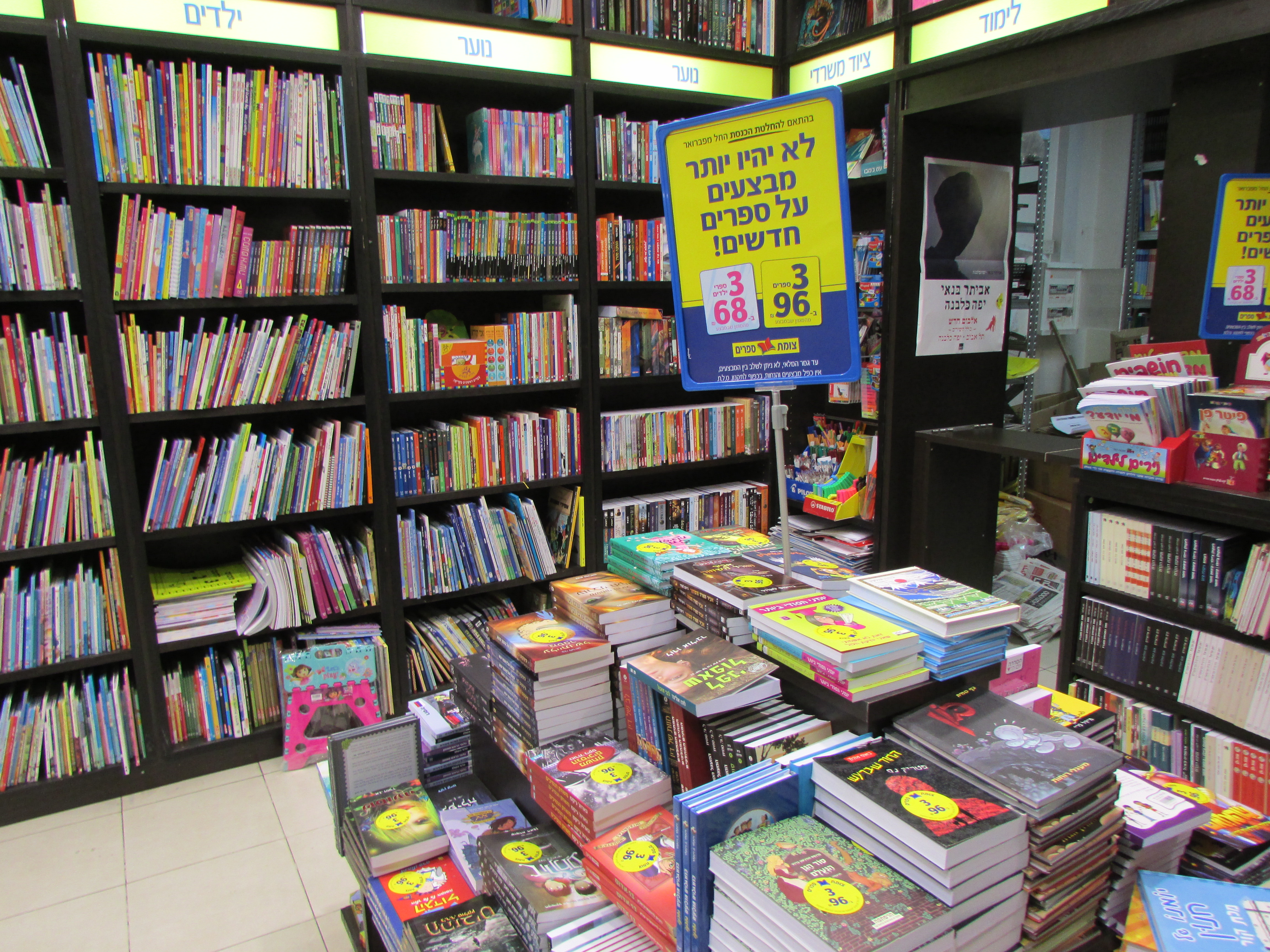 Tzomet Sfarim shop with a notice on the new book law coming soon into effect